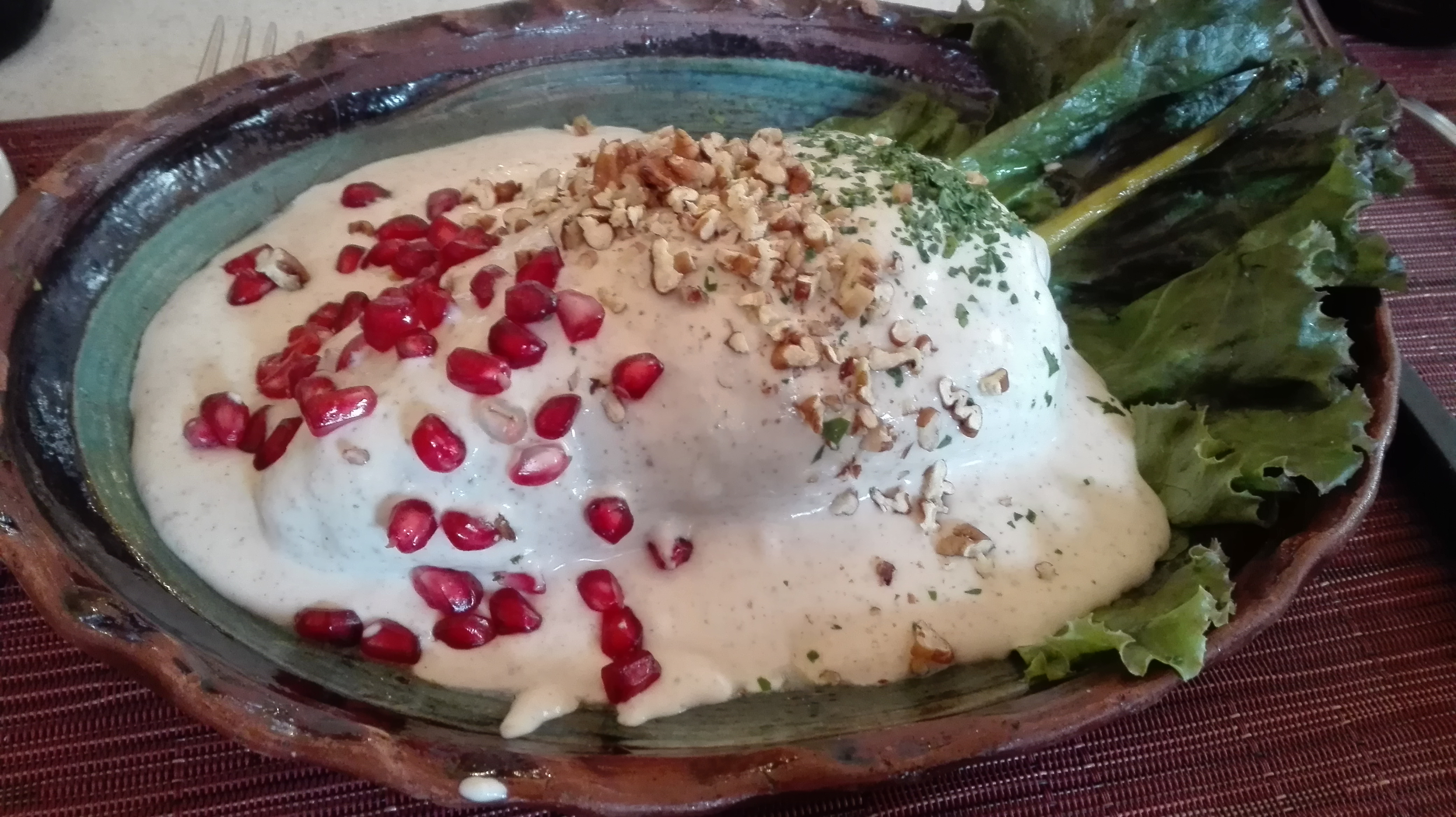 Chiles en nogada (September 2019), at restaurant La Ópera, 5 de Mayo avenue, Historic Center of Mexico City.